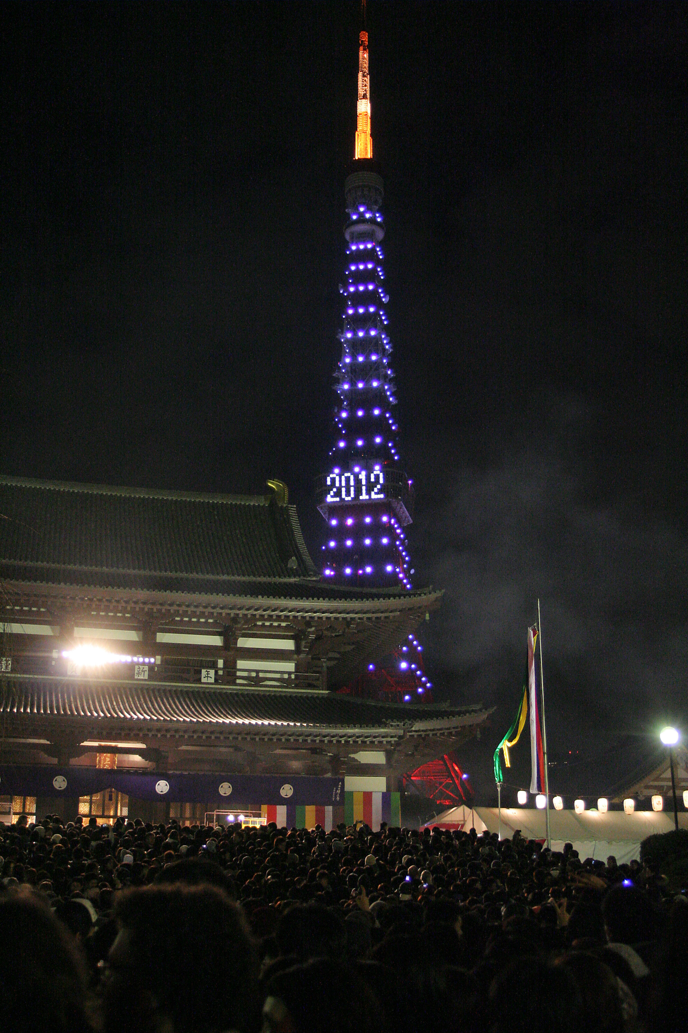 Zojo-ji temple and Tokyo Tower in New Year's eve 2012